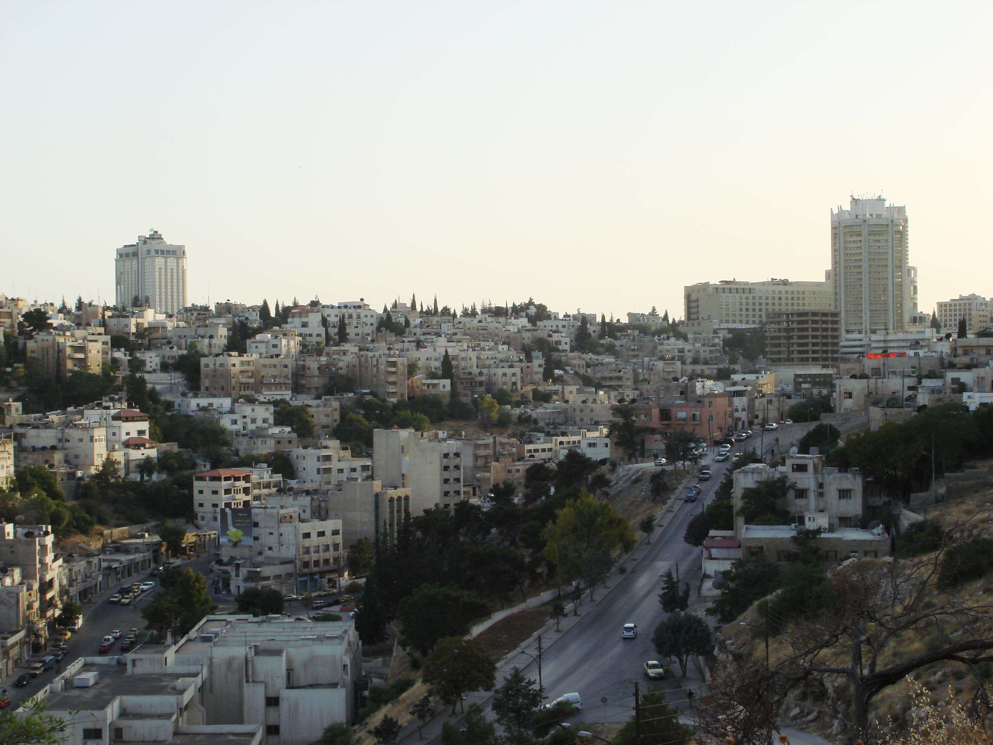 Jabel Amman in Amman City - as seen as from Jabel Weibdeh